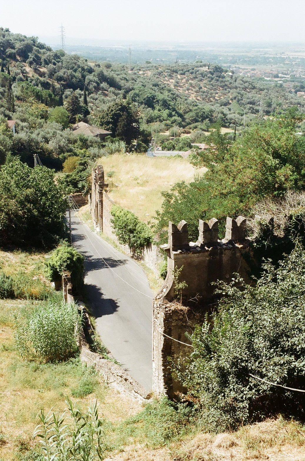 Road leading to Tibur or Villa d'Este